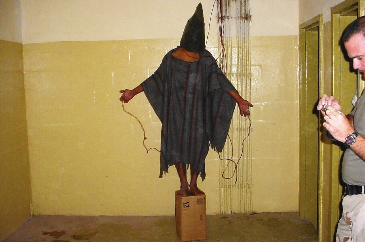 11:04 p.m., Nov. 4, 2003. Placed in this position by HARMAN and FREDERICK. Both took pictures as a joke. Instructed if moved would be electrocuted. SSG FREDERICK is depicted with a Cyber Shot camera in his hands. SOLDIER(S): SSG FREDERICK. All caption information is taken directly from CID materials. U.S. Army / Criminal Investigation Command (CID). Seized by the U.S. Government. Note: Hooded detainee standing on the box with wires attached to his left and right hand; the detainee was told that he would be electrocuted if he fell off the box. Staff Sgt. Ivan "Chip" Frederick, at right. Photo taken shortly after 11 pm, 4 November 2003. This is one of Sabrina Harman’s photographs of the prisoner nicknamed Gilligan and later correctly identified as Abdou Hussain Saad Faleh. Staff Sgt. Ivan Frederick II, who took the iconic picture, The Hooded Man is standing to the right. This picture was taken approximately three minutes after the The Hooded Man.